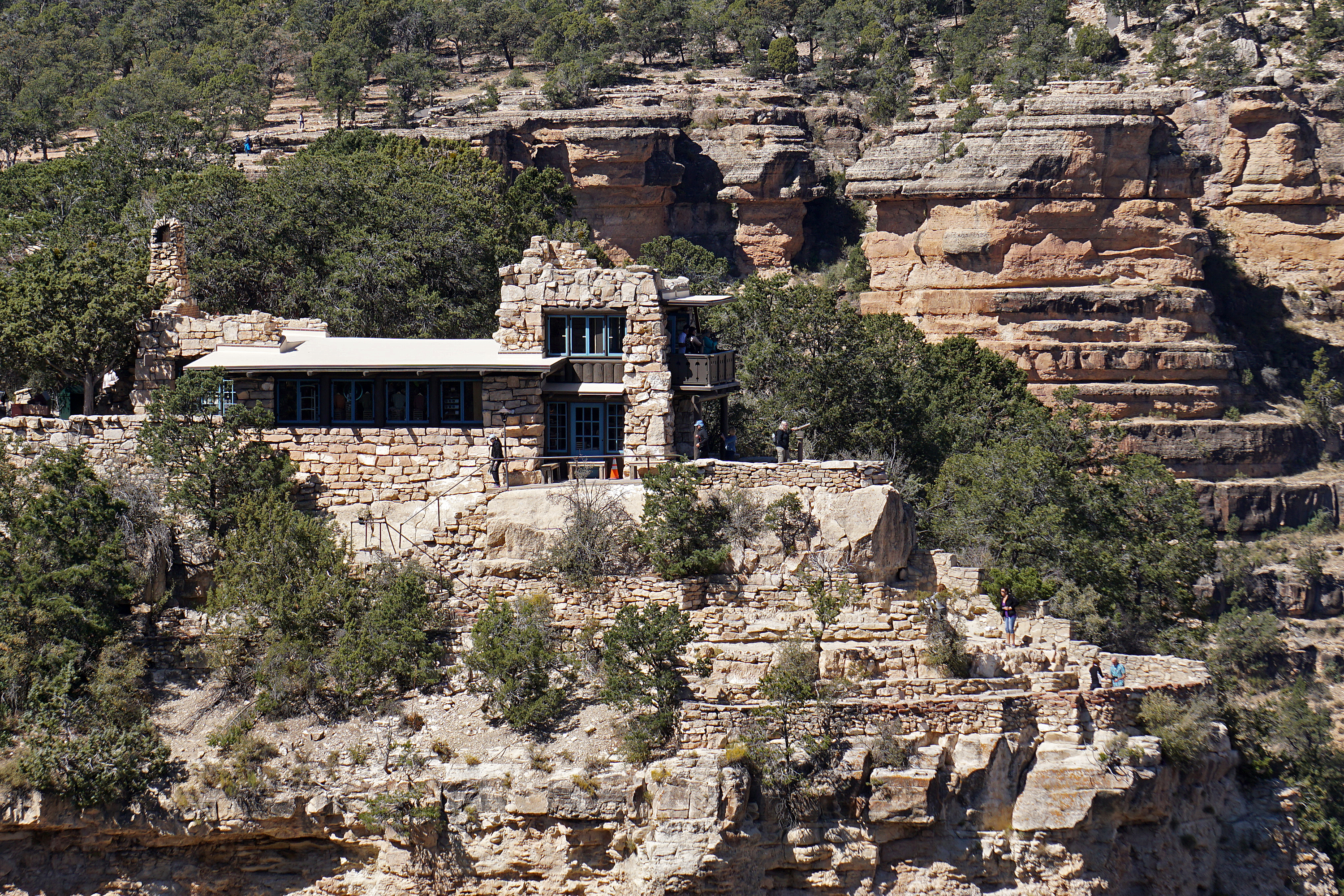 Remote view of Lookout Studio, Grand Canyon Village, Arizona